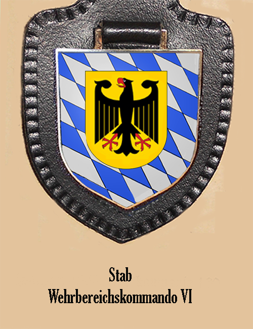 Internal coat of arms Stab Wehrbereichskommando VI (WBK VI) of the Bundeswehr (Armed Forces of the Federal Republic of Germany). → Remarks on naming and categorization scheme